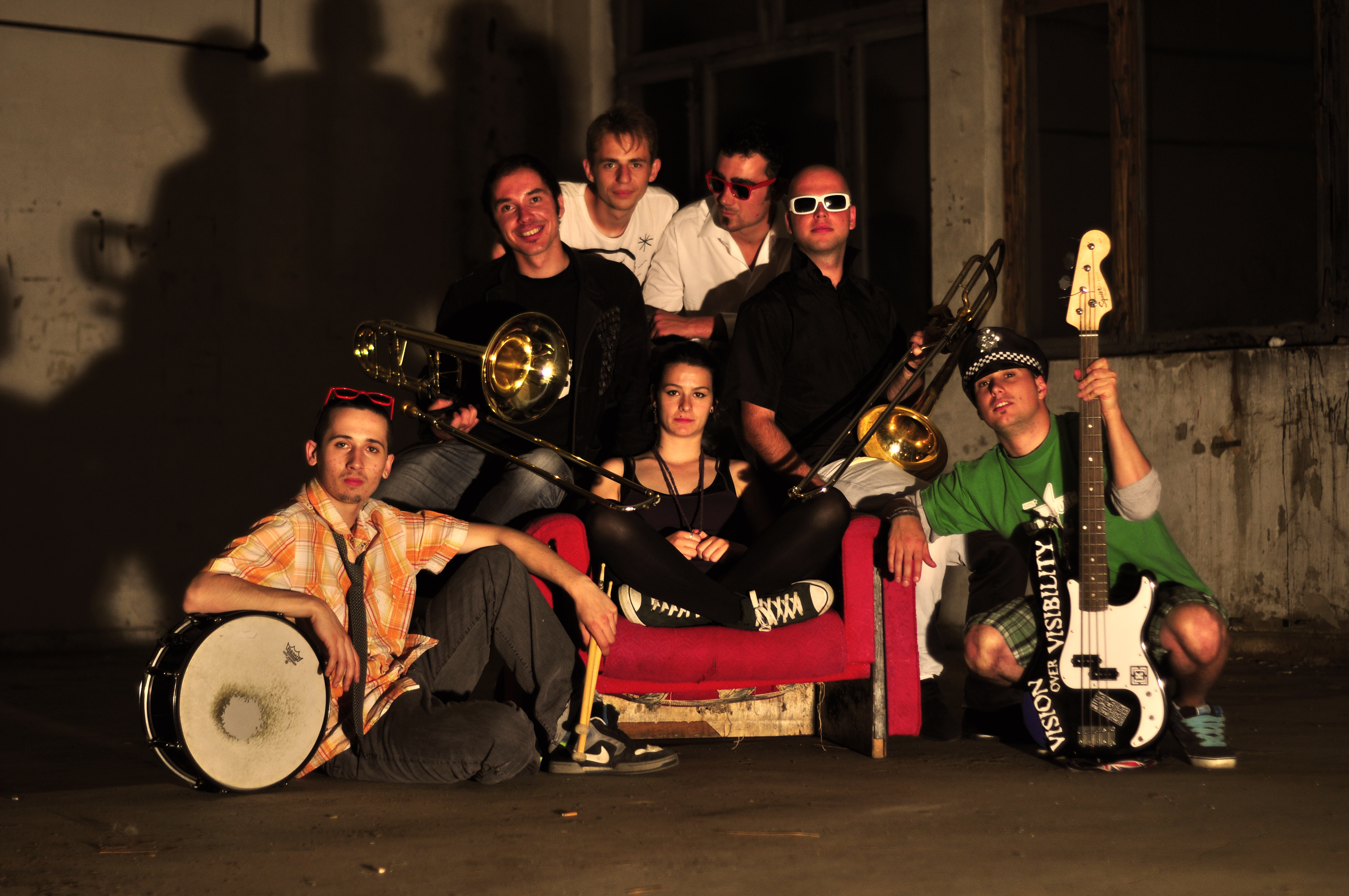 RN Band photo ver. 2